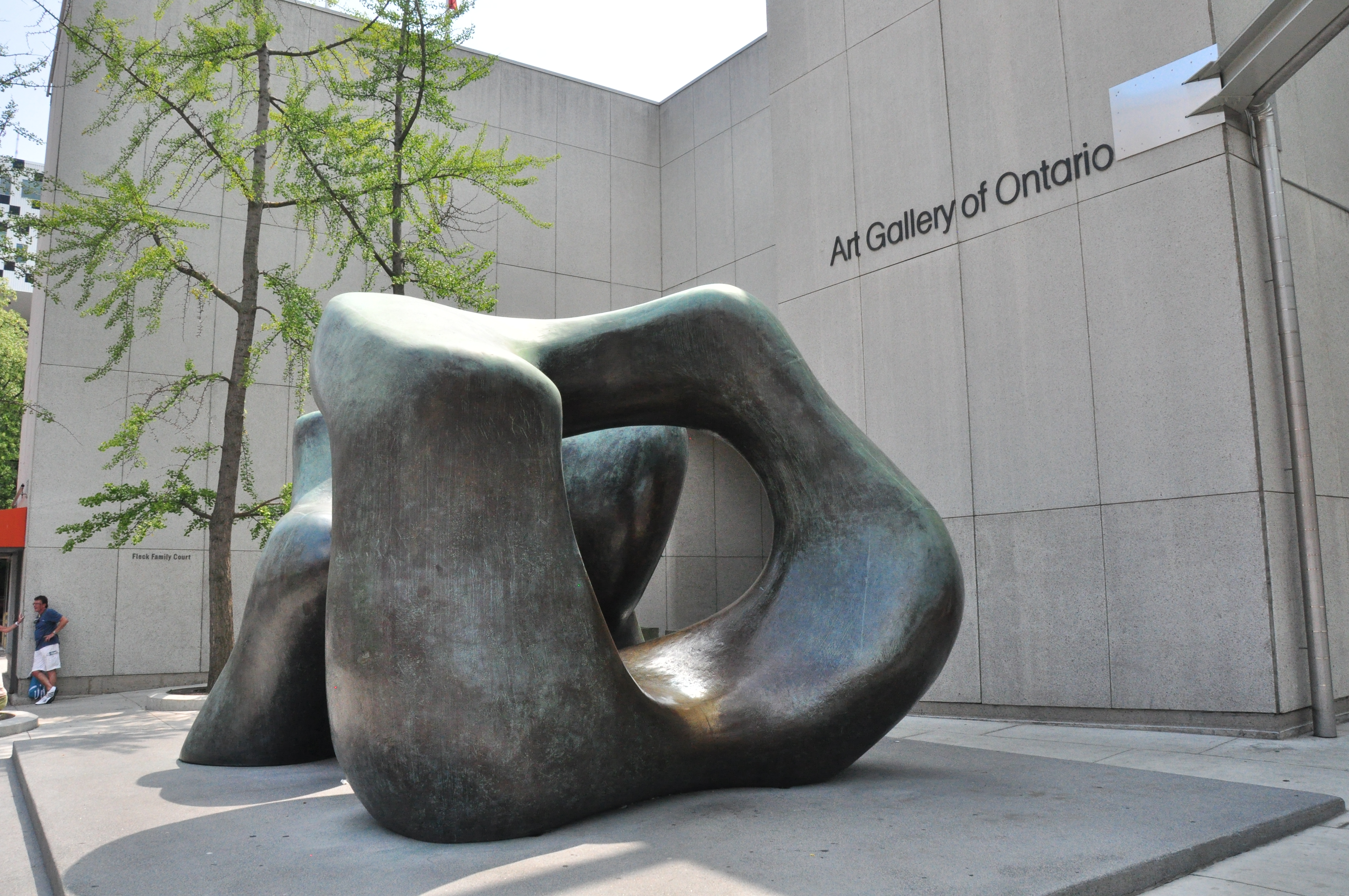 Henry Moore's Large Two Forms 1969 (LH 556). Cast 1 of 4, exhibited outside the Art Gallery of Ontario.